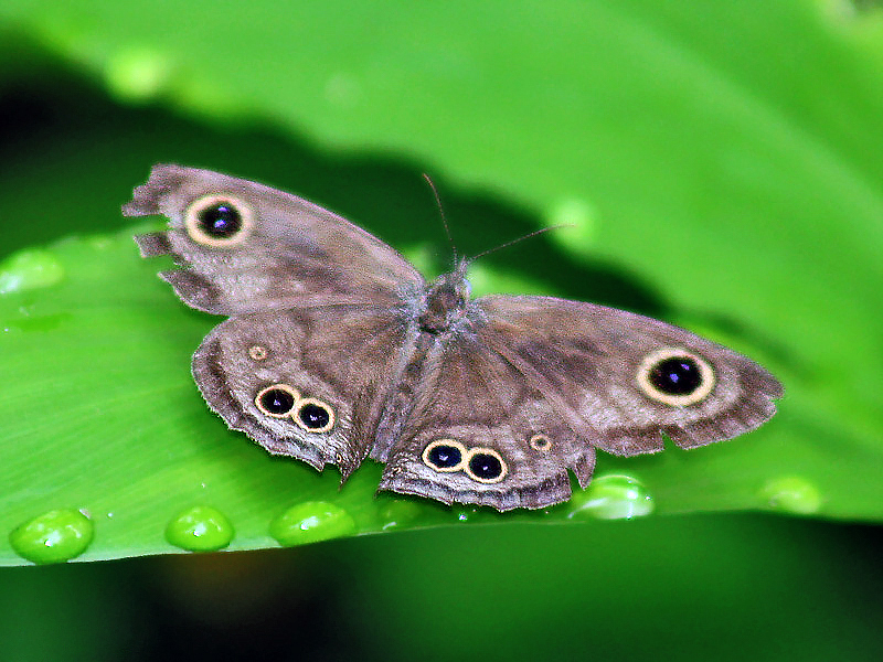 Common Five-ring Ypthima baldus in Kolkata, West Bengal, India.